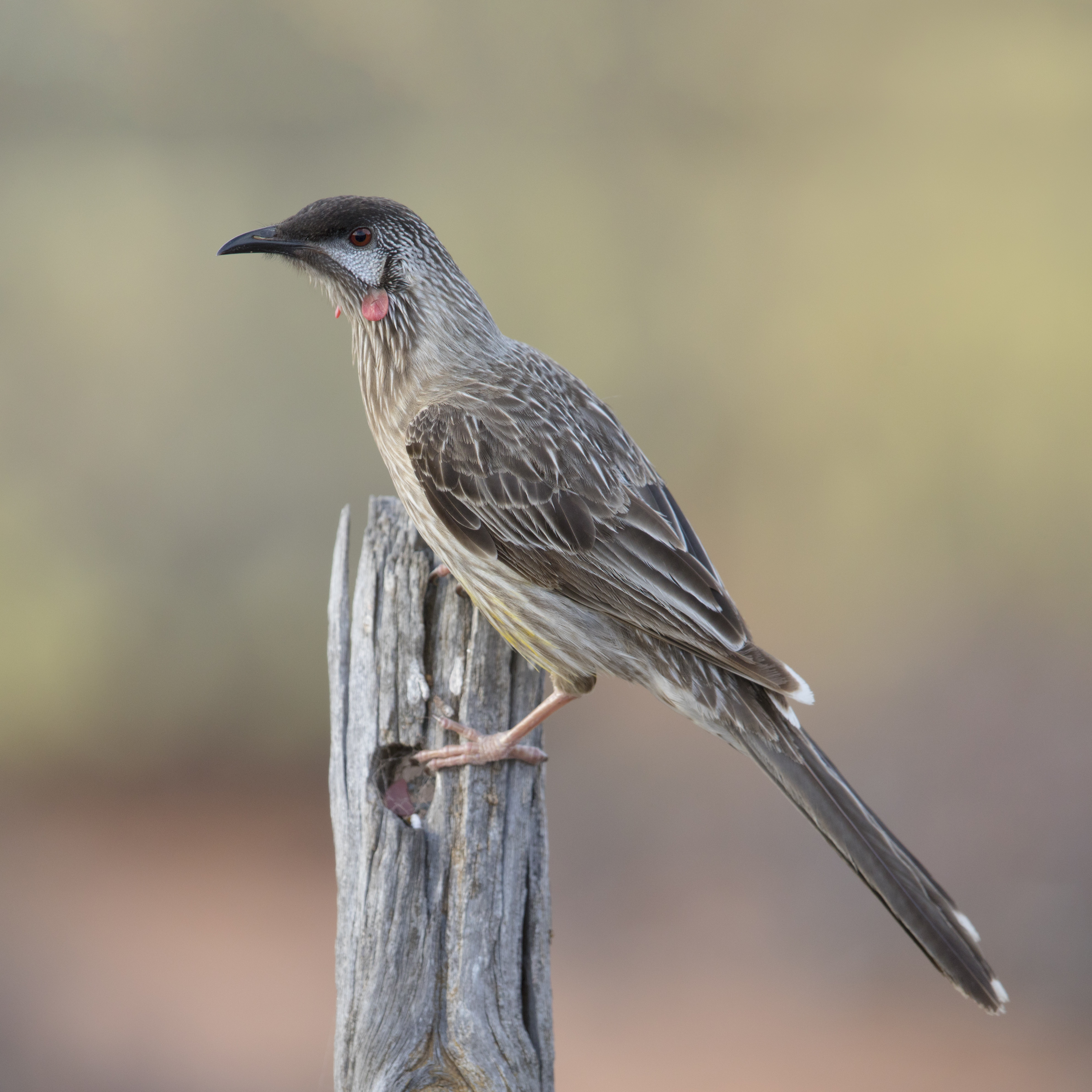 Red wattlebird